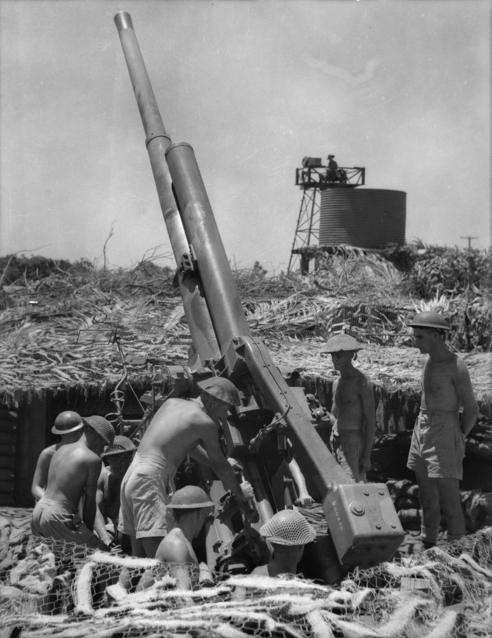 A gun crew from the Australian Army's 14th Heavy Anti-Aircraft Battery loading a shell into their 3.7 Inch anti-aircraft gun at Darwin